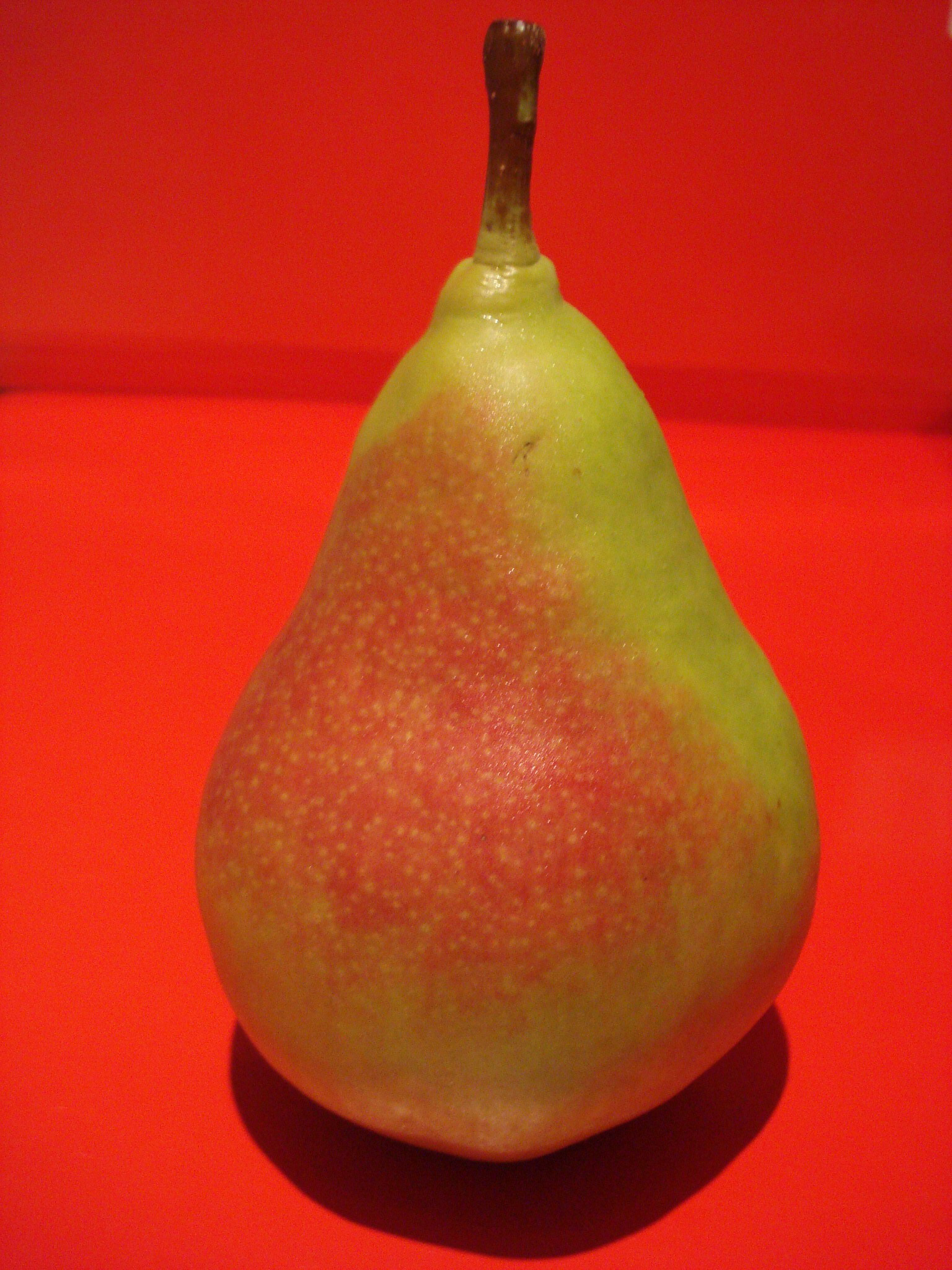 "Butirra Precocial Morettini" pear, early ripening variety, grown in Medjimurje County, northern CroatiaHrvatski: Kruška "Butirra - Rana Morettini", ranodozrijevajuća sorta, uzgojena u Međimurskoj županiji, sjeverna Hrvatska